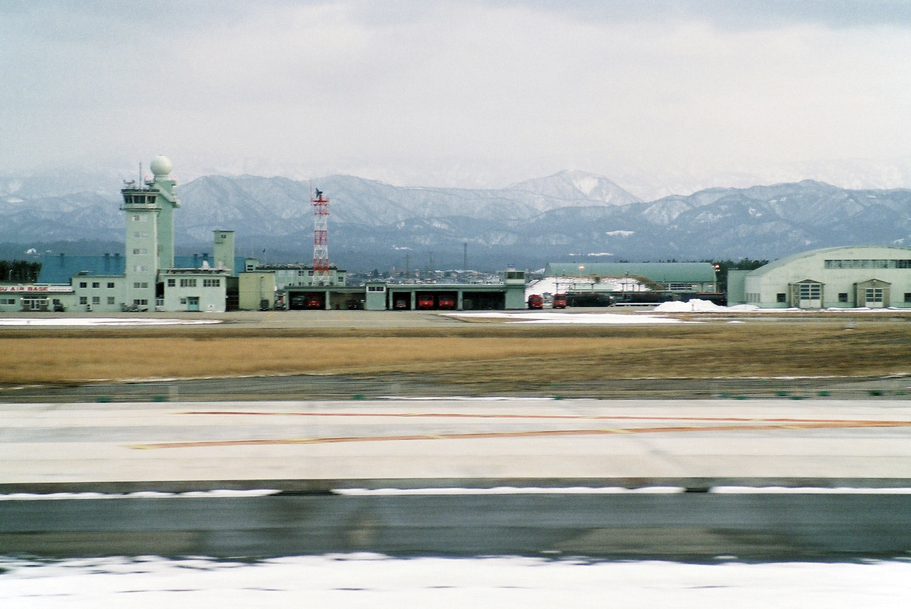 JASDF Komatsu Air Base.